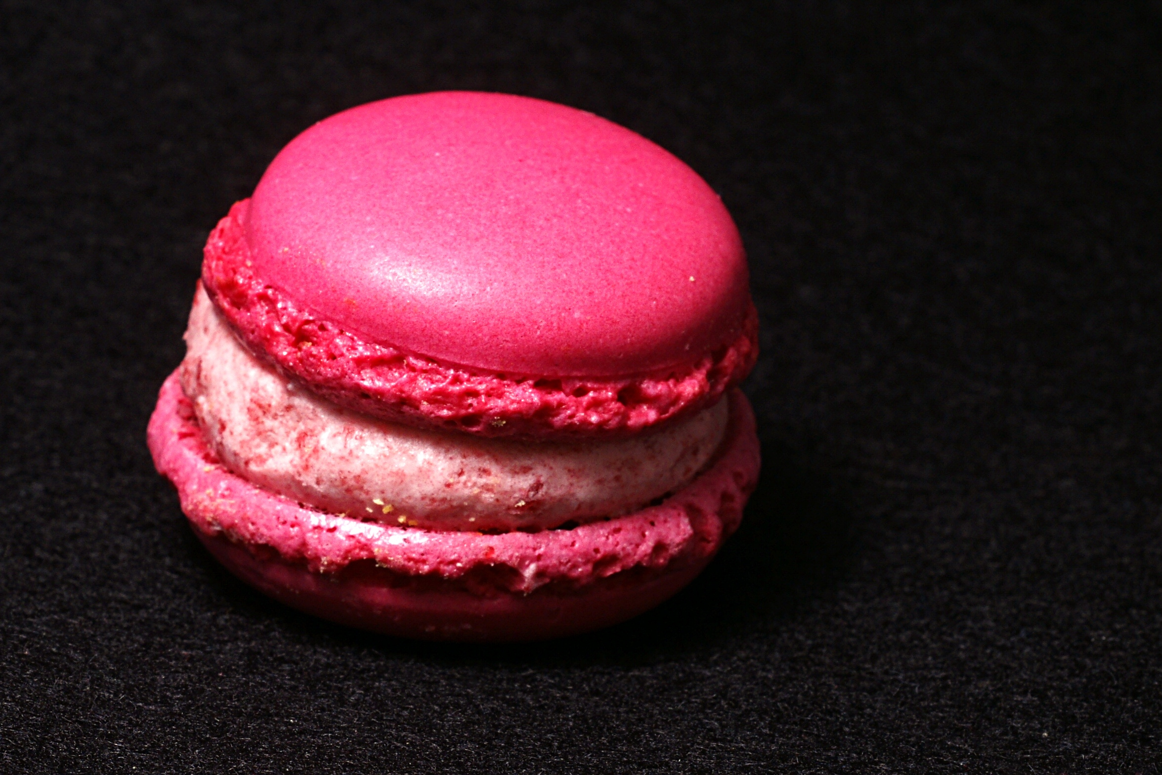 A raspberry Luxemburgerli.